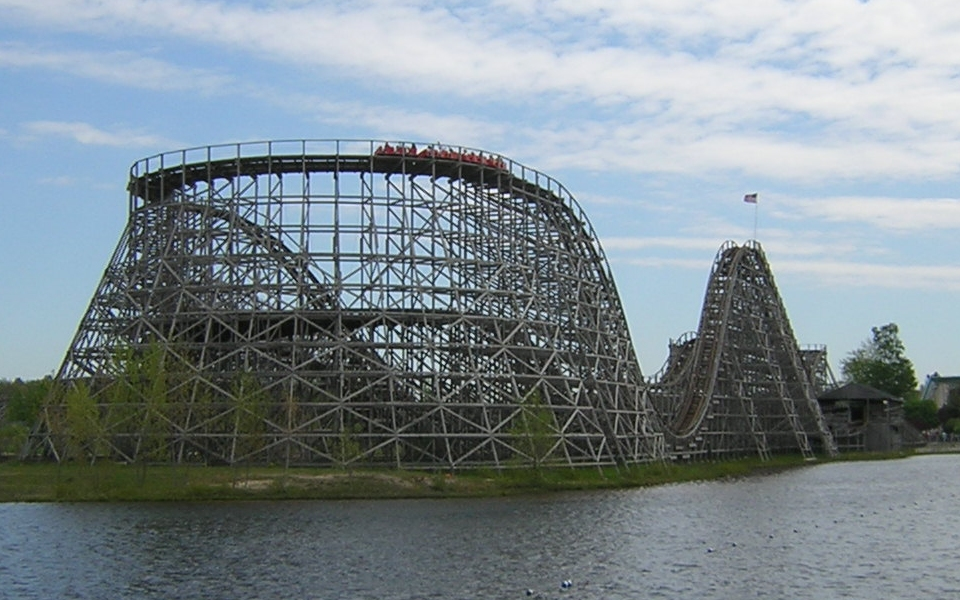 Wolverine Wildcat, a Custom Coasters wooden roller coaster at Michigan's Adventure metro Muskegon area.